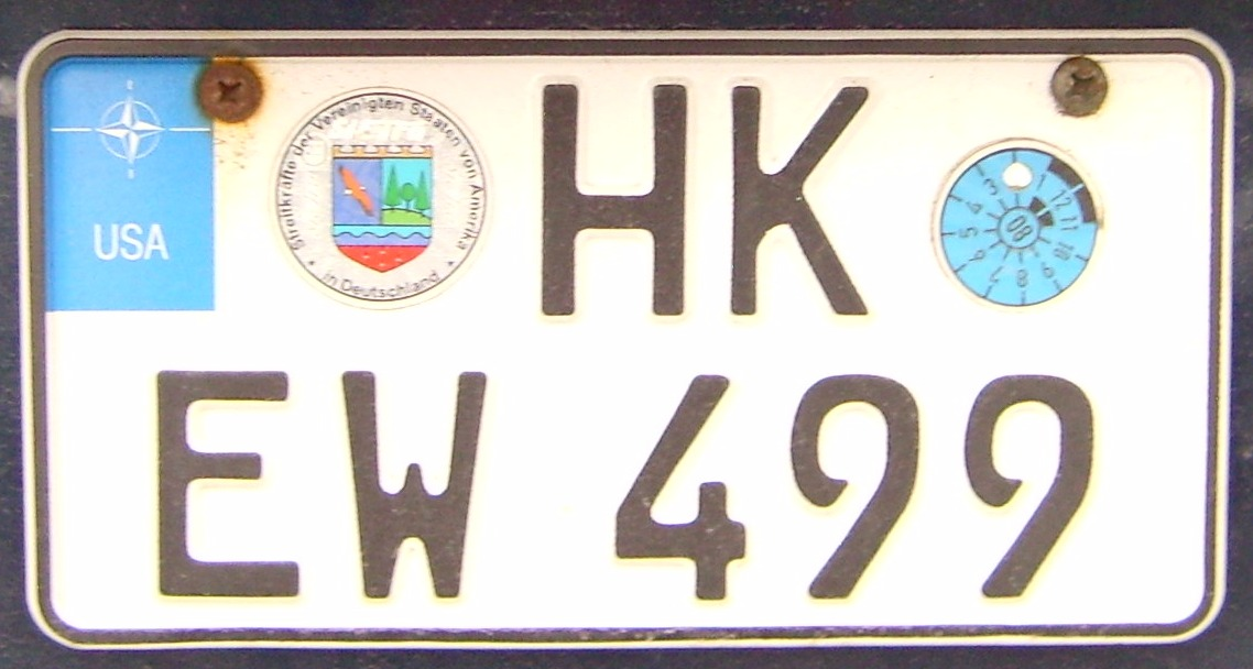 HK-Nummernschild in Bayern fotografiert. HK numberplate photograph taken in Bavaria